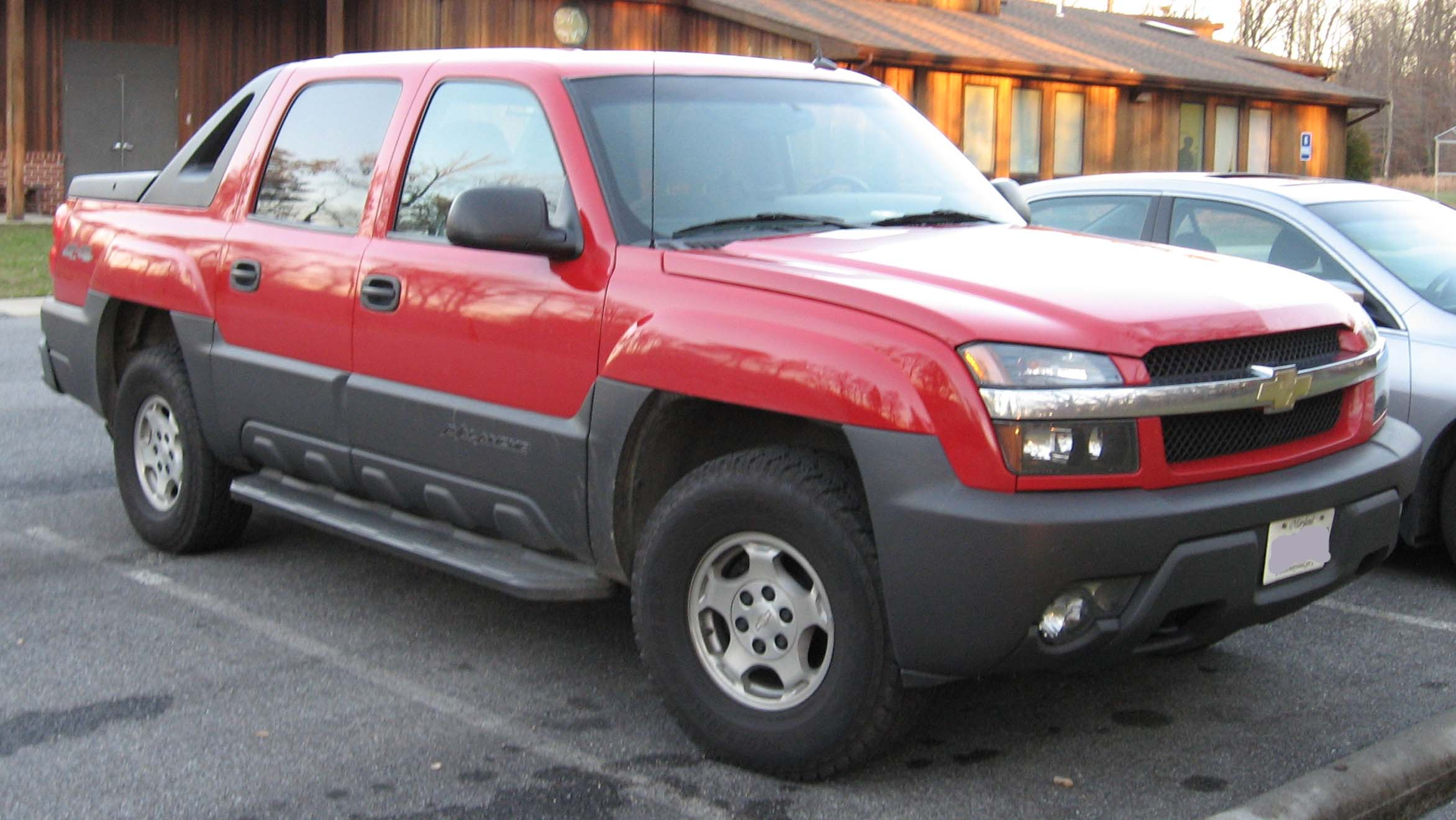 2002-2006 Chevrolet Avalanche photographed in USA.